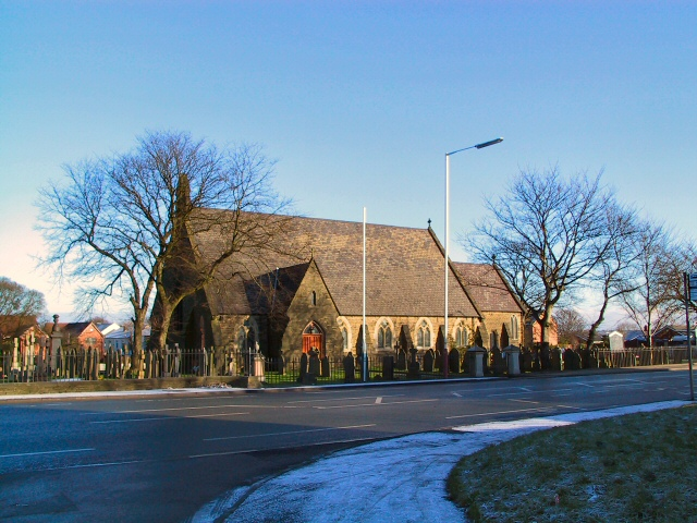 Parish church of St John the Evangelist, Chorley Road, Wingates, Greater Manchester, seen from the southwest